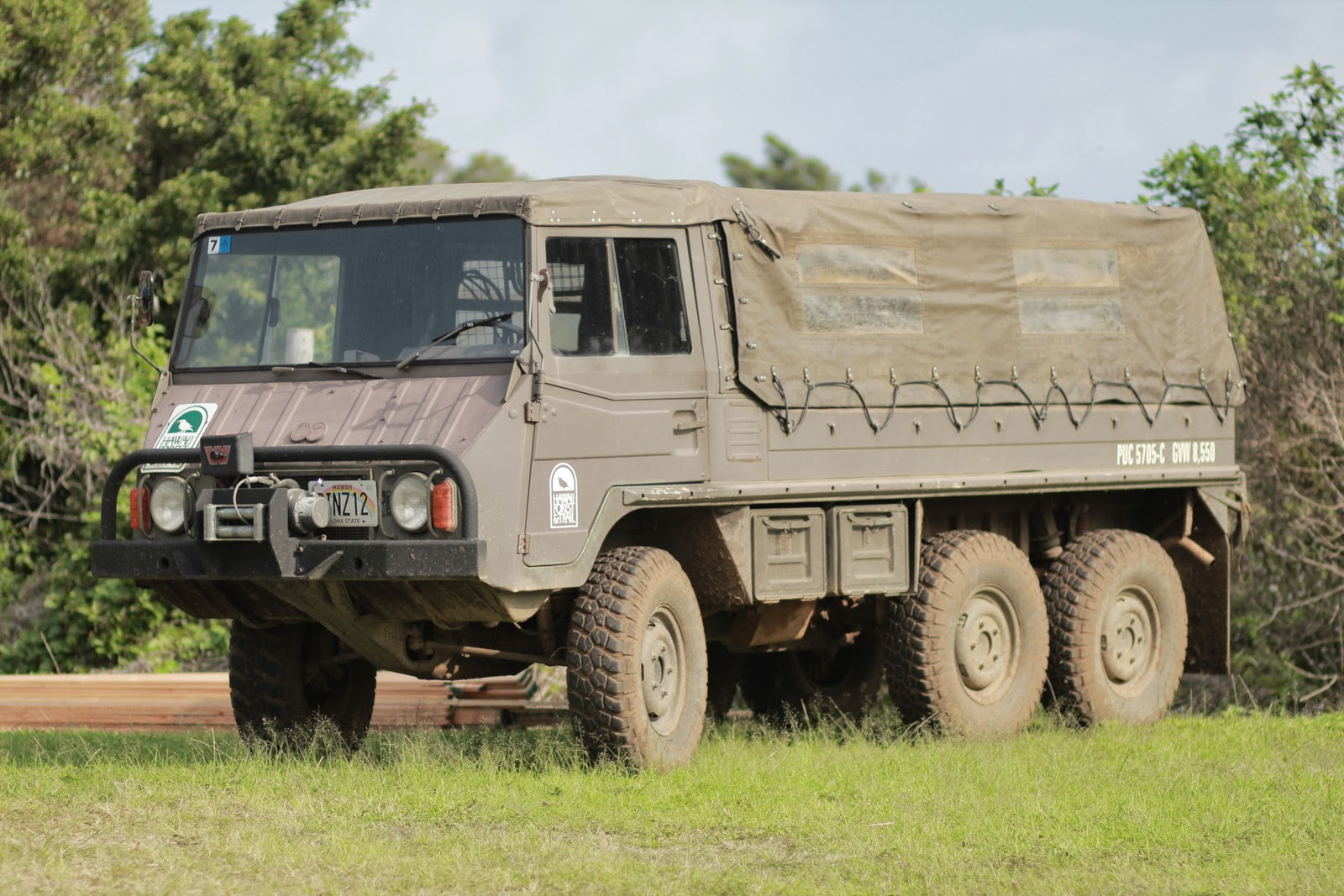 Pinzgauer All-Terrain Troop Transport in Hawaii, ex Swiss army